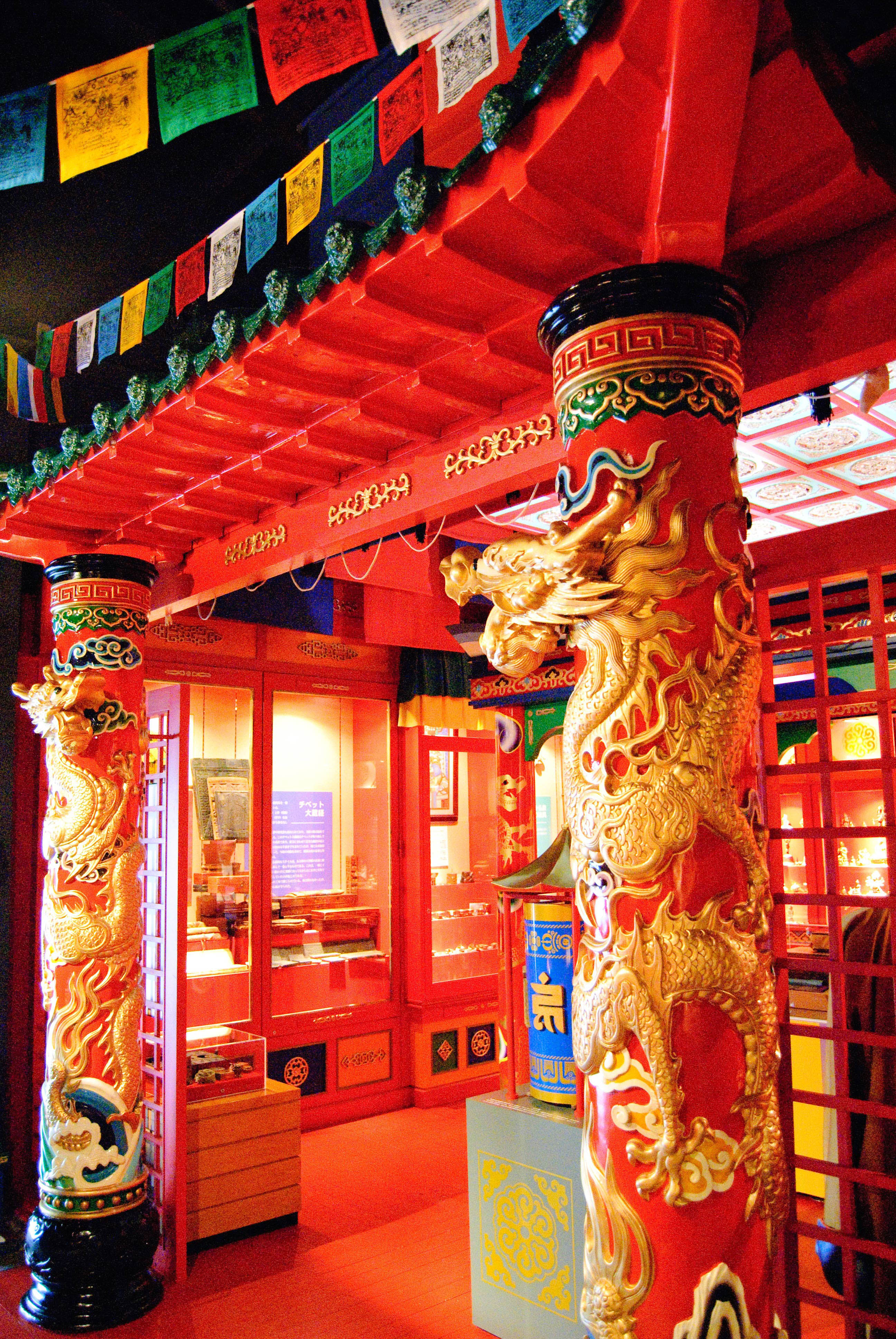 Japan Mongolia Fork Museum in Toyooka, Hyogo prefecture, Japan